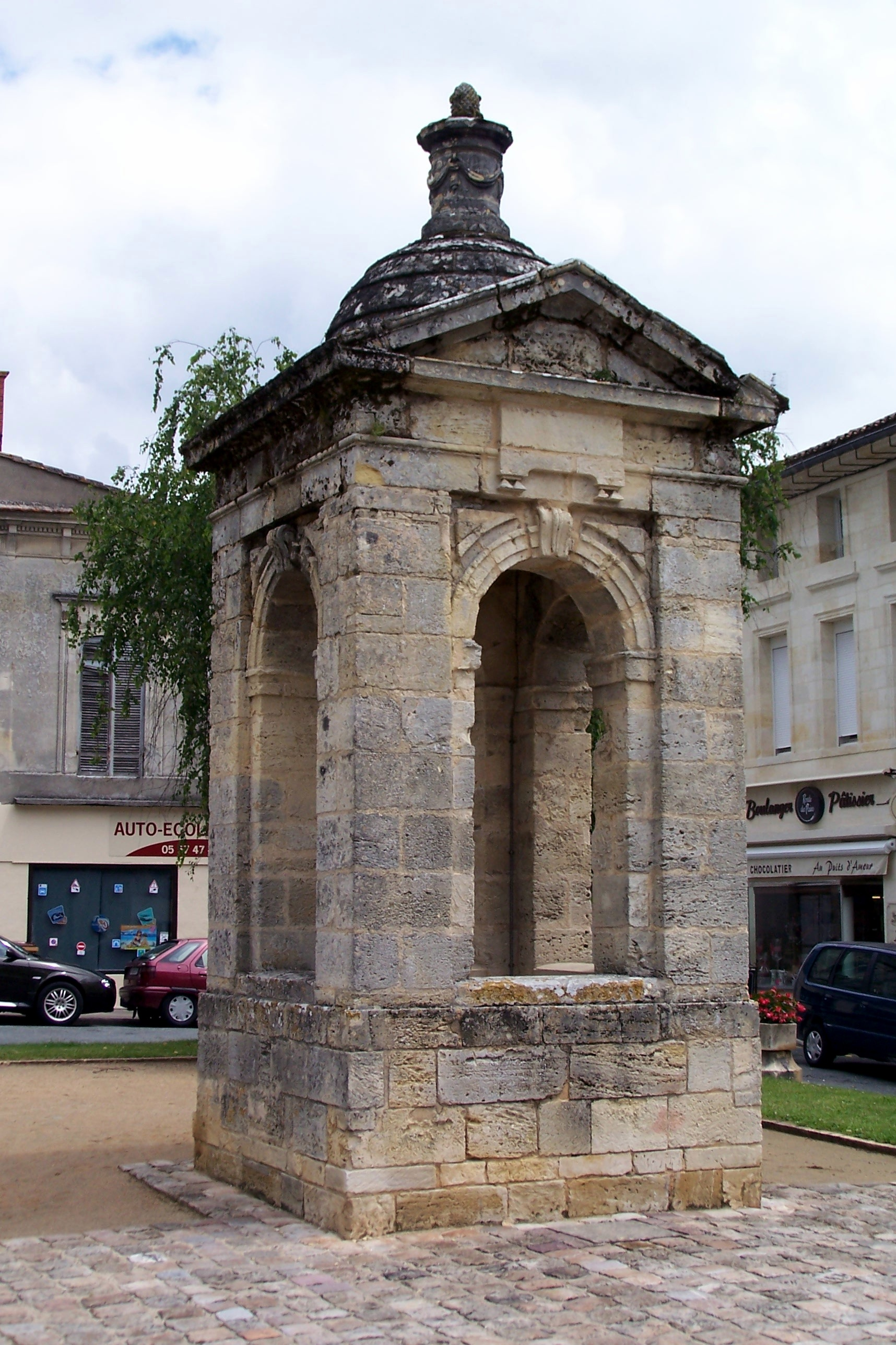 Water well Henri IV of Guîtres (Gironde, France)